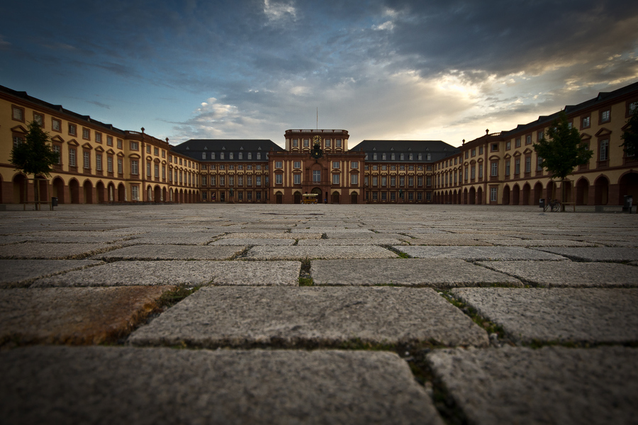 Mannheim palace is said to be one of the largest baroque palaces in the world